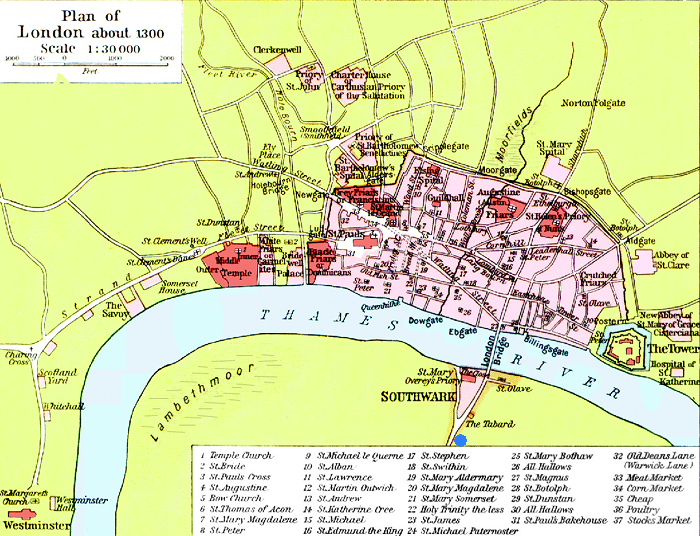 Source: Commons Image:London 1300 Historical Atlas William R Shepherd (died 1934).PNG Description: A map of London in 1300 from a historical atlas by William R Shepherd. Apart from religious foundations and two or three other complexes, the city is confined within its walls, the bulk and heart of the City of London today. The City is flanked to the east and west by the royal fortress of the Tower of London and the royal palace of Bridewell. The route from the city to the royal centre of Westminster is not yet fully built up. There is a settlement at Southwark, but it is very small. The approximate location of the future Marshalsea prison (first mentioned 1370) is marked in blue.